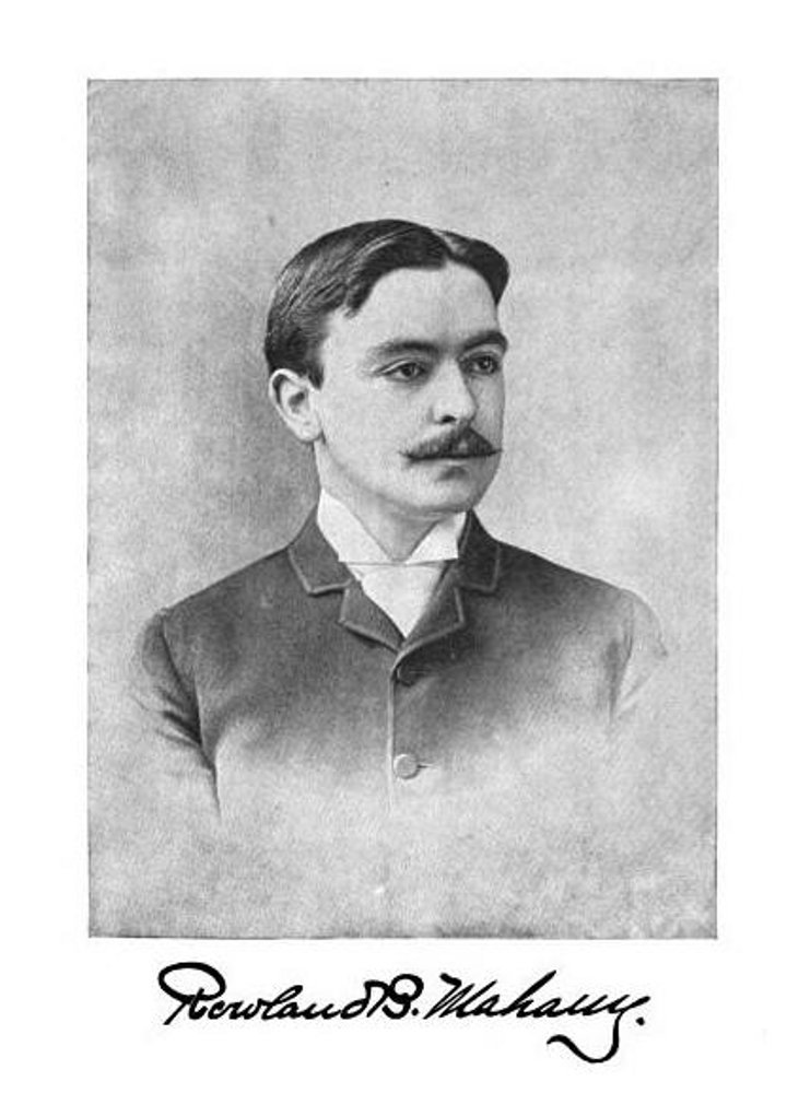 Rowland Blennerhassett Mahany (September 28, 1864 - May 2, 1937)